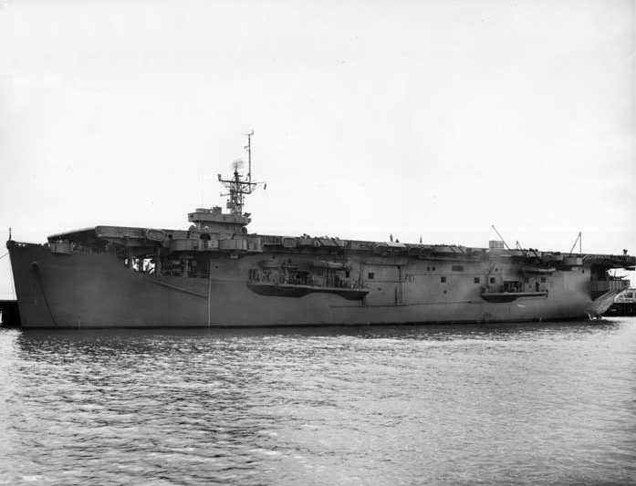 The U.S. Navy escort carrier USS Barnes (CVE-20) at the Mare Island Naval Shipyard, California (USA), in 1943.